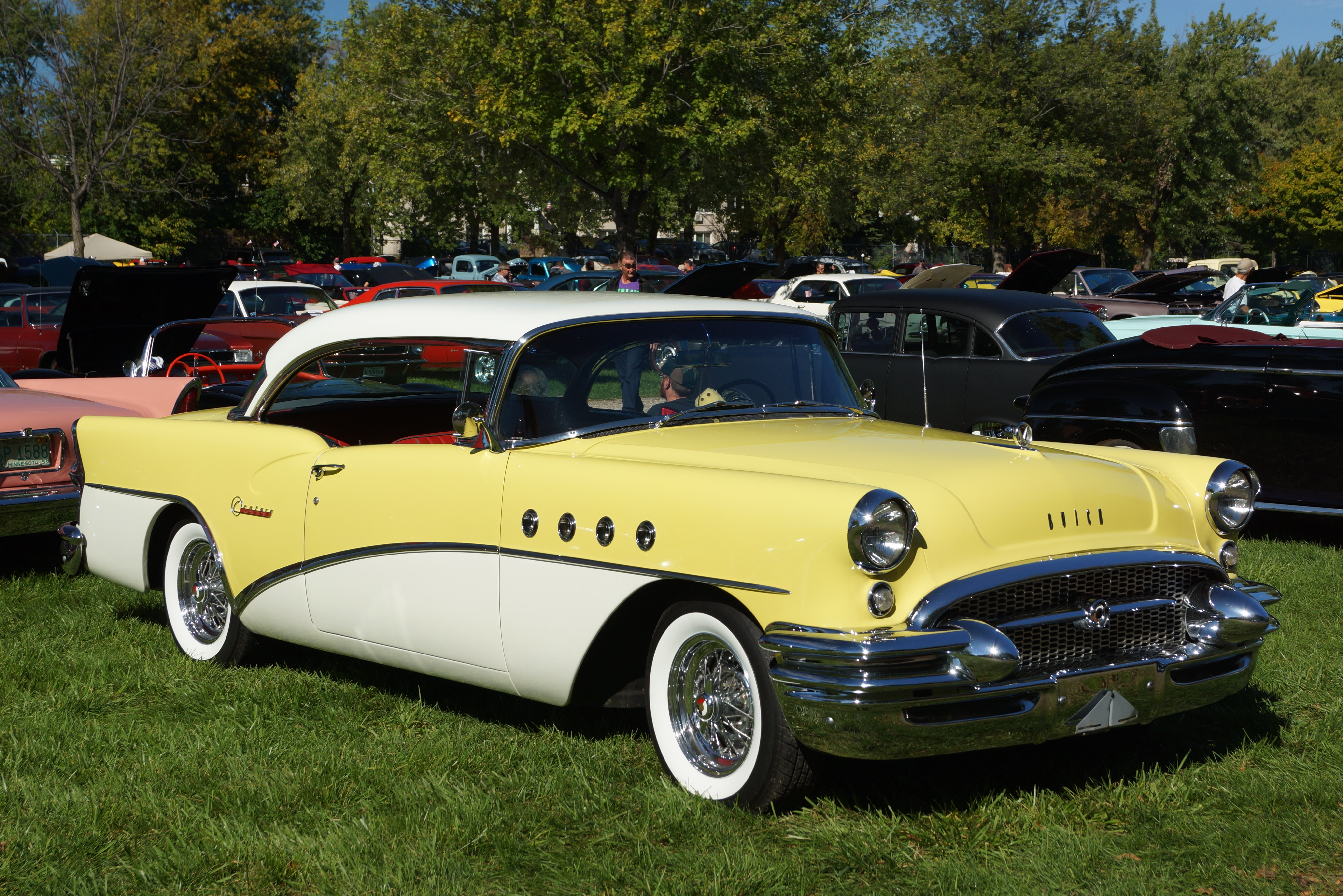 46th Annual Midwest Fall Swapmeet & Car Show Sponsored by the Capitol City Chapter of the AACA and the Twin Cities Model "A" Ford Club Minnesota State Fairgrounds St. Paul, Minnesota October 2016 Click here for more car pictures at my Flickr site.